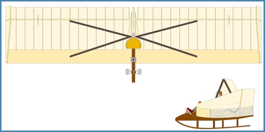 Abrial A12 Bagoas Flying Wing